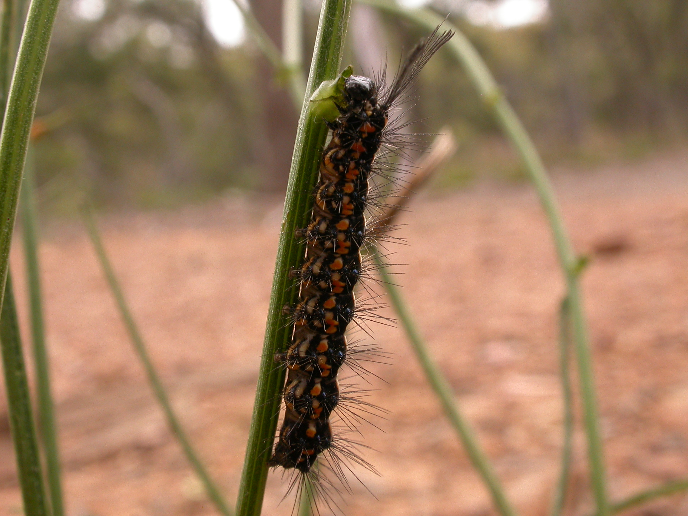 Nyctemera amicus (White, 1841), larva, Black Mountain, Canberra, ACT, 24 December 2010